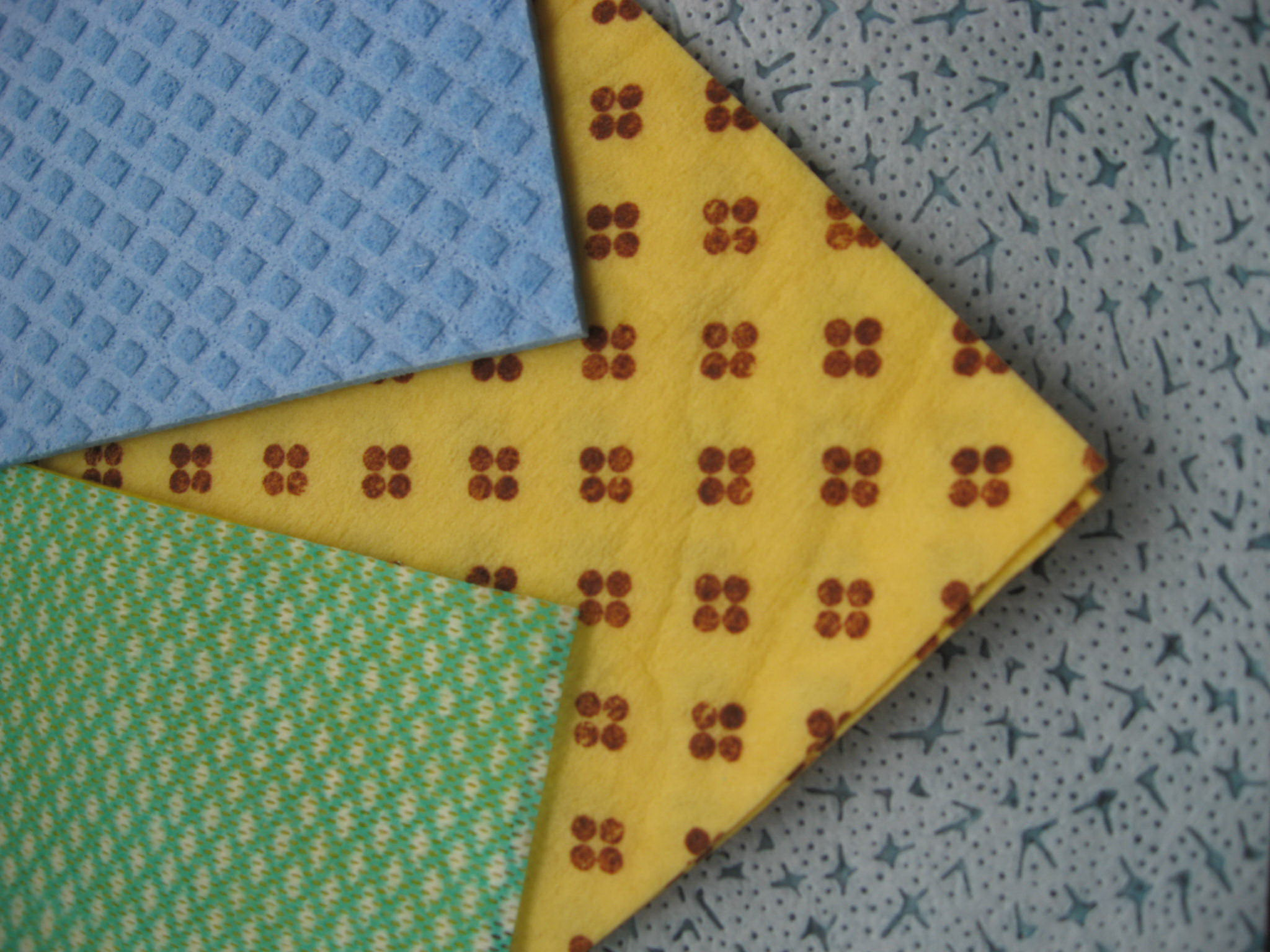 Typical household wipes made from nonwoven fabrics